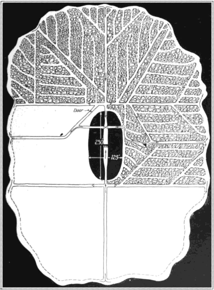 Original caption: "Fig. 24. -- Plan of individual roadway longwall mine." The three-compartment hoisting shaft is in the center of the central pillar, which is not mined in order to avoid subsidance around the hoist. The downdraft ventilation shaft is 100' left of the pillar. Arrows show directions of air flow. Access to the face is through roadways through the gob, protected by packwalls, and with the roof "brushed" to maintain clearance as the roof subsides.